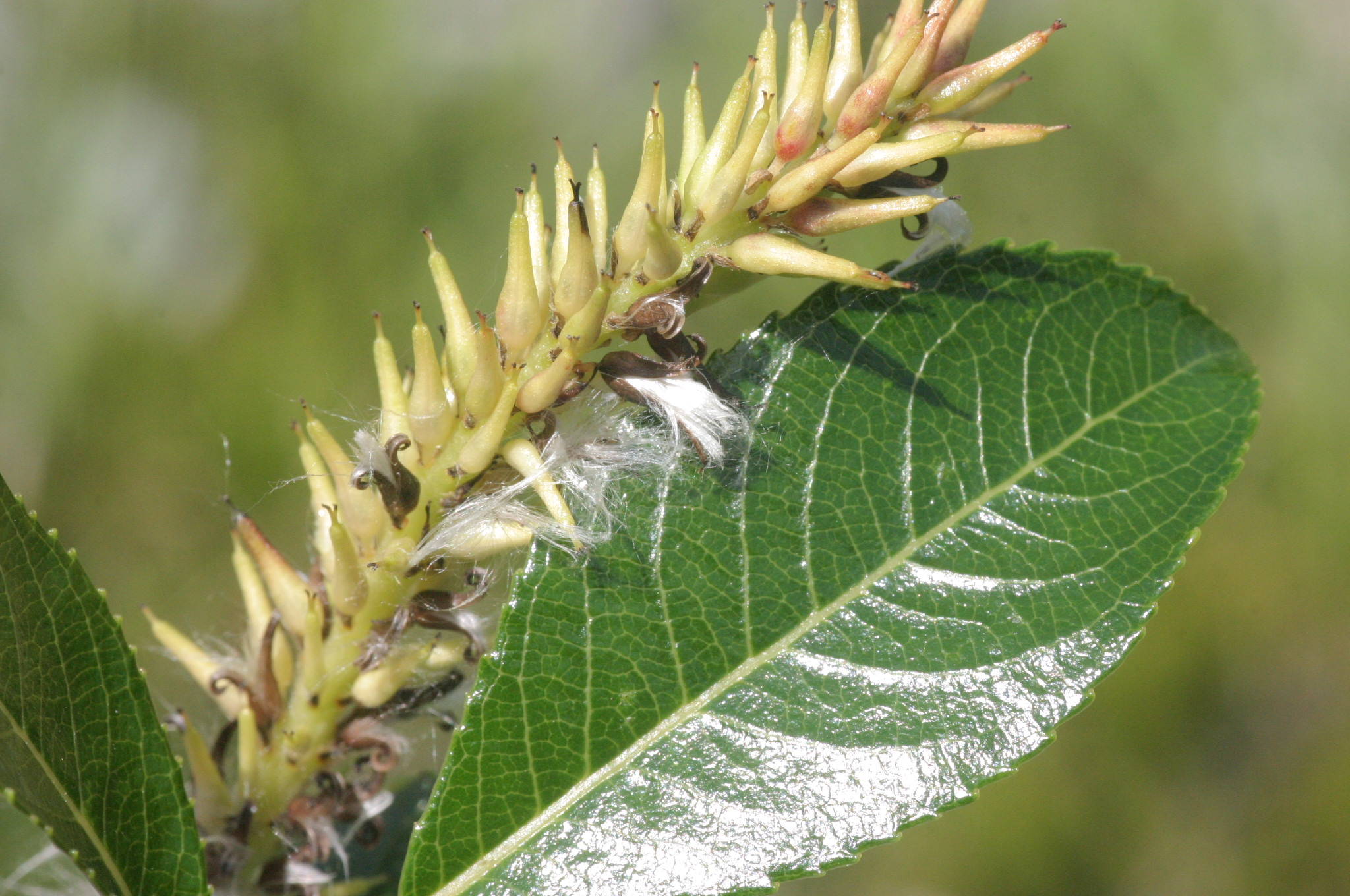 Salix glabra